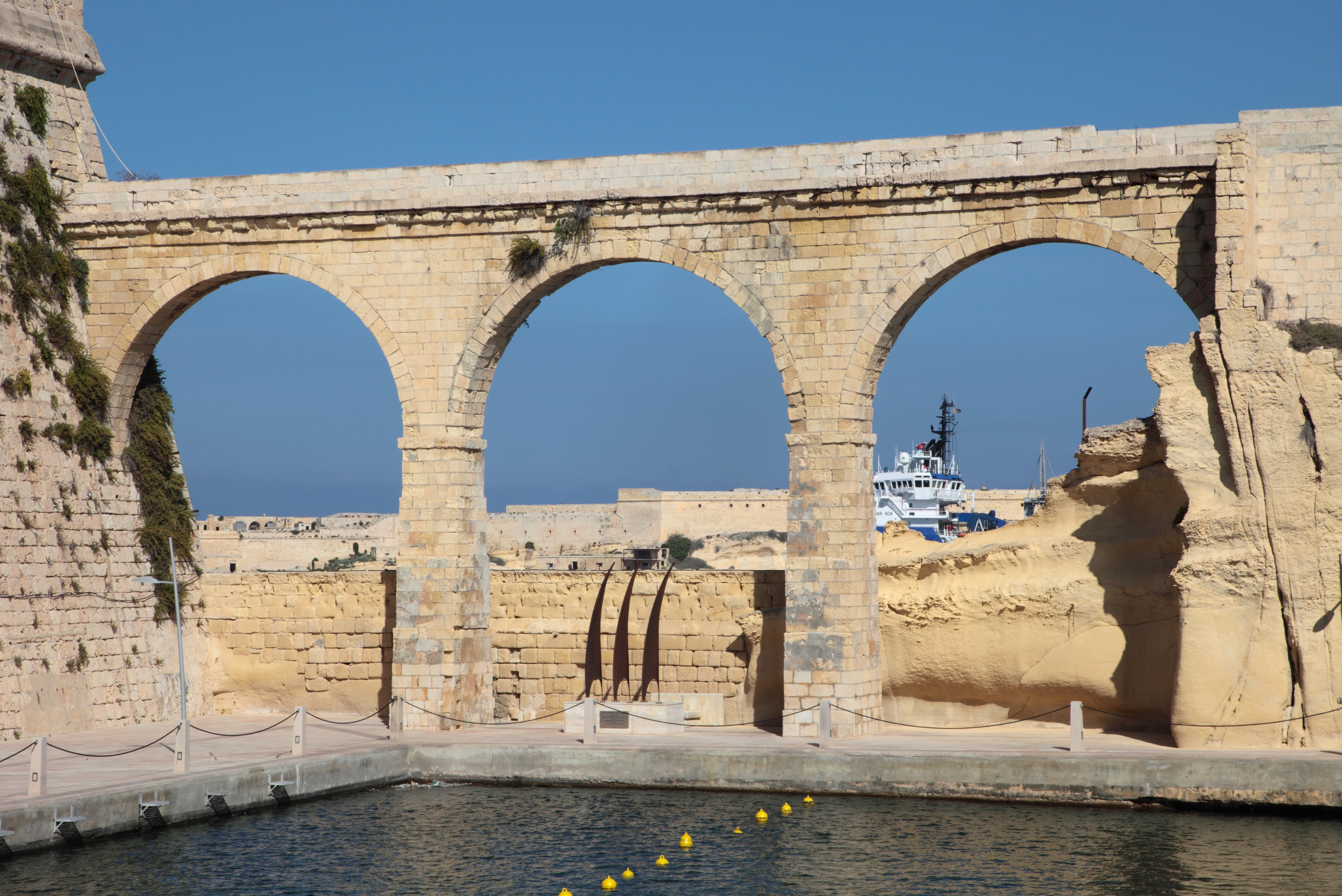 Malta, Birgu, arches near Fort St. Angelo